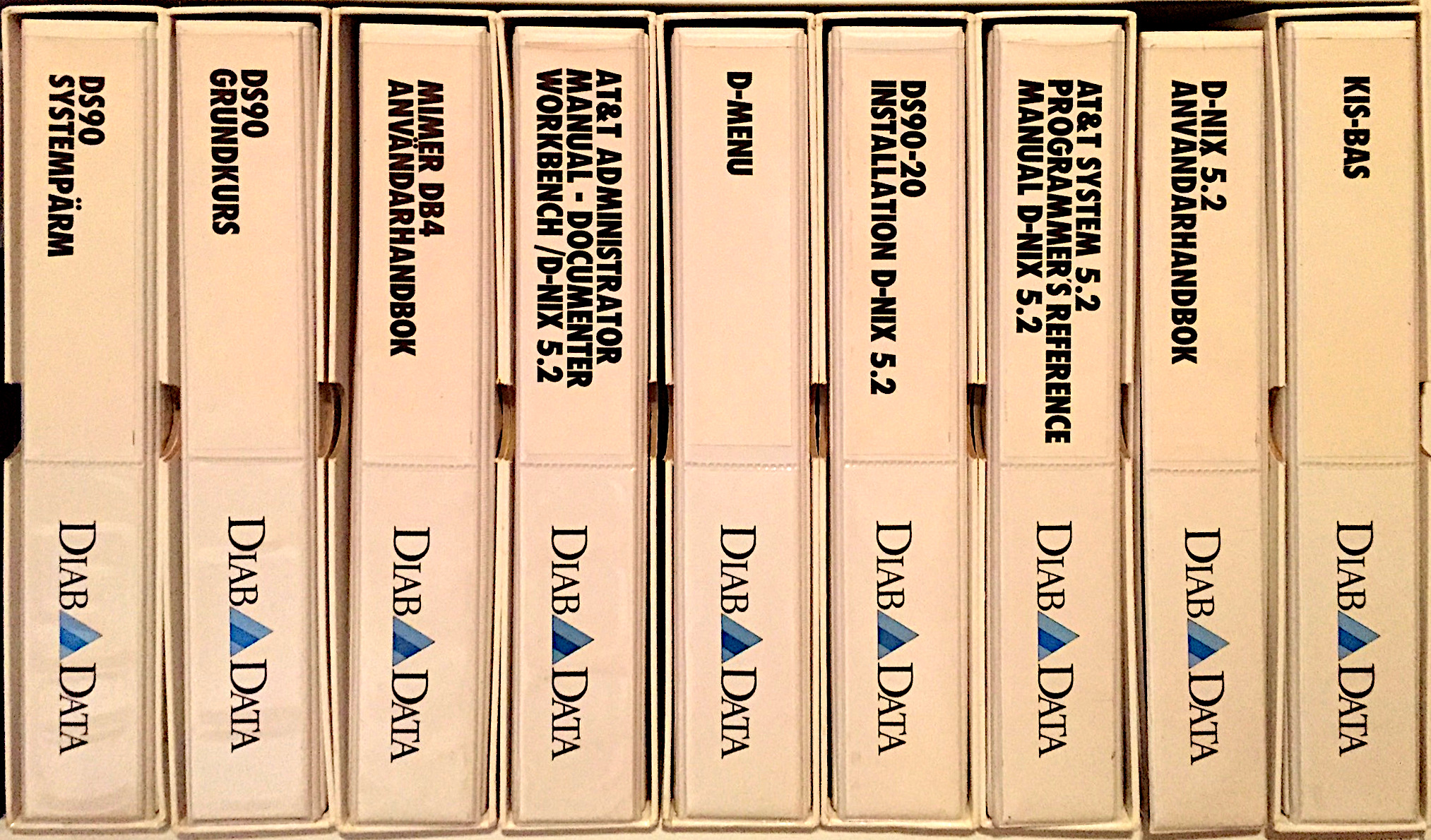 Documentation provided with DIAB DS9x and DIABxxxx computers in the late 1980ies and 1990ies.